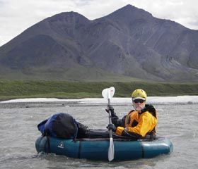 An Alpacka Raft paddled via kayak paddle. Original source is Alpacka Raft has authorized the usage of this image under the clear understanding that the image is now open to free use.